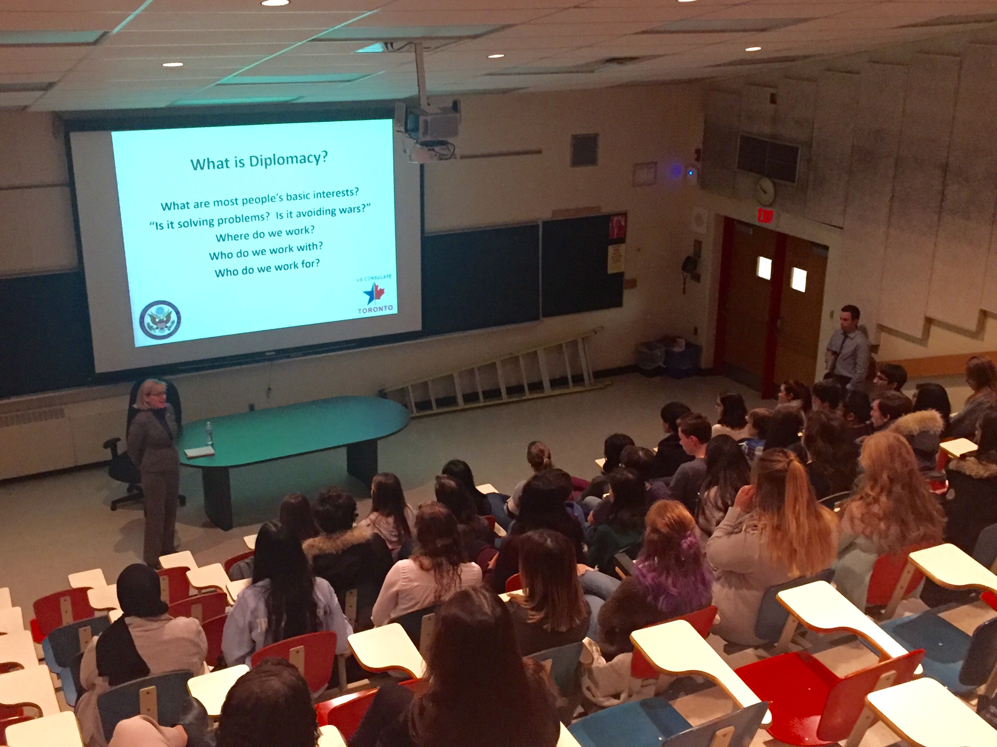 Consular Officer Deborah McFarland presenting at Lorne Park Secondary School